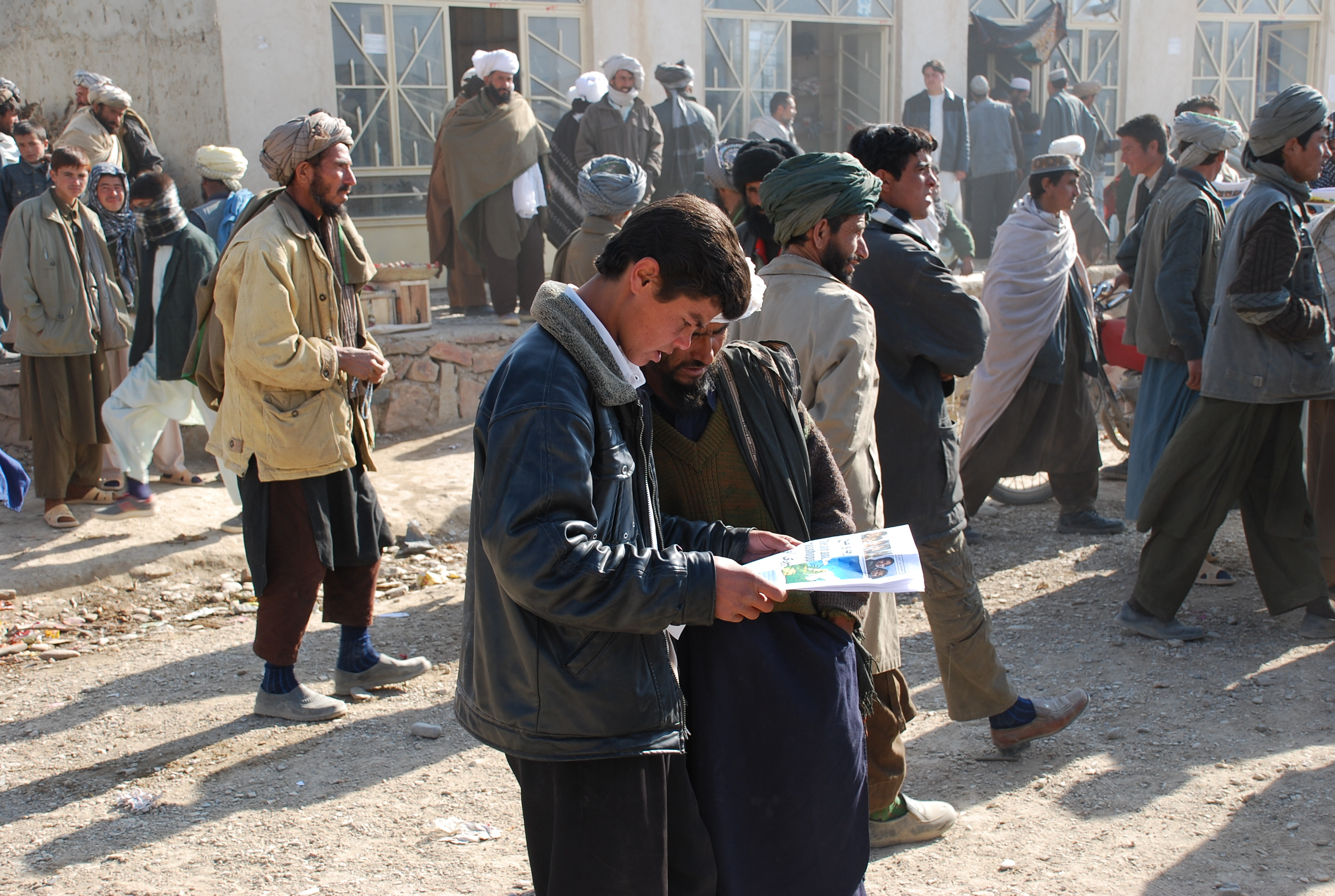 People of Chaghcharan, Ghor province. Photo by Tomas Balkus of Lithuania.